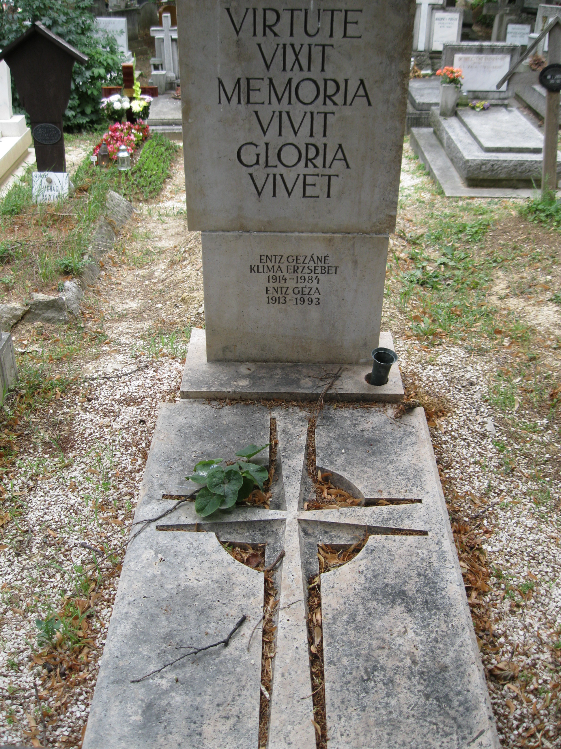 Tomb of Géza Entz (1913–1993) in Farkasréti Cemetery [3/1-2-46]